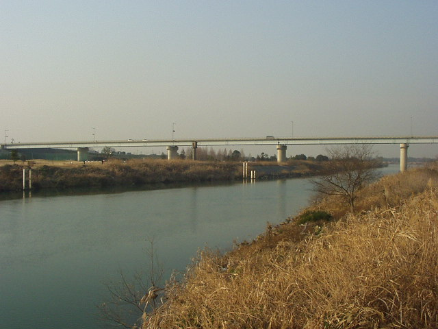 Jisui Bridge of Arakawa River. Nishi ward, Saitama Saitama prefecture, Japan. From the south side of the east bank.